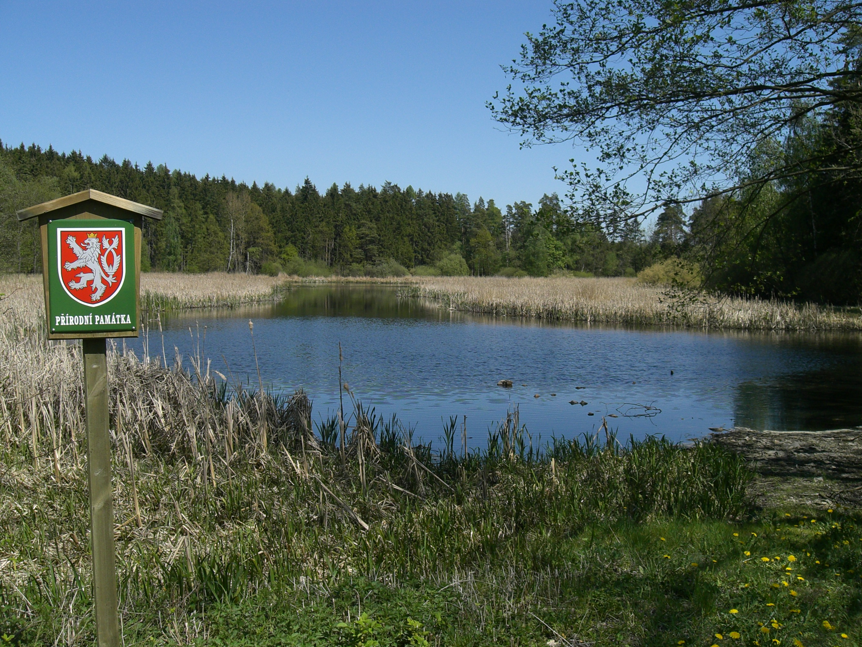 Protected area Boukal near Milevsko, Písek district, Czech Republic.